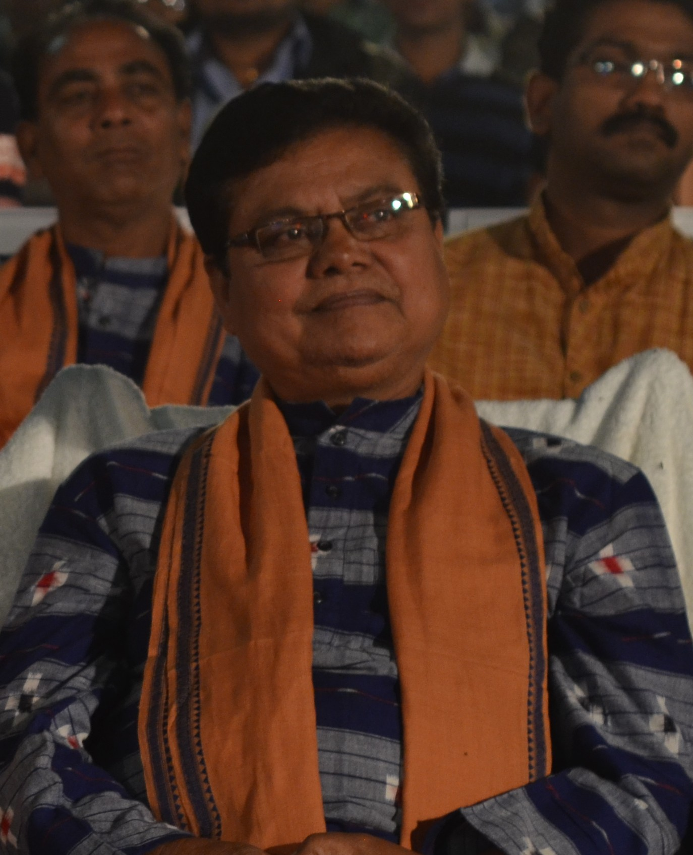 Odia film actor Archita Sahu, Anu Choudhury and film director Sabyasachi Mohapatra during State Film Awards 2014 at Utkal Mandap, Bhubaneswar, Odisha.